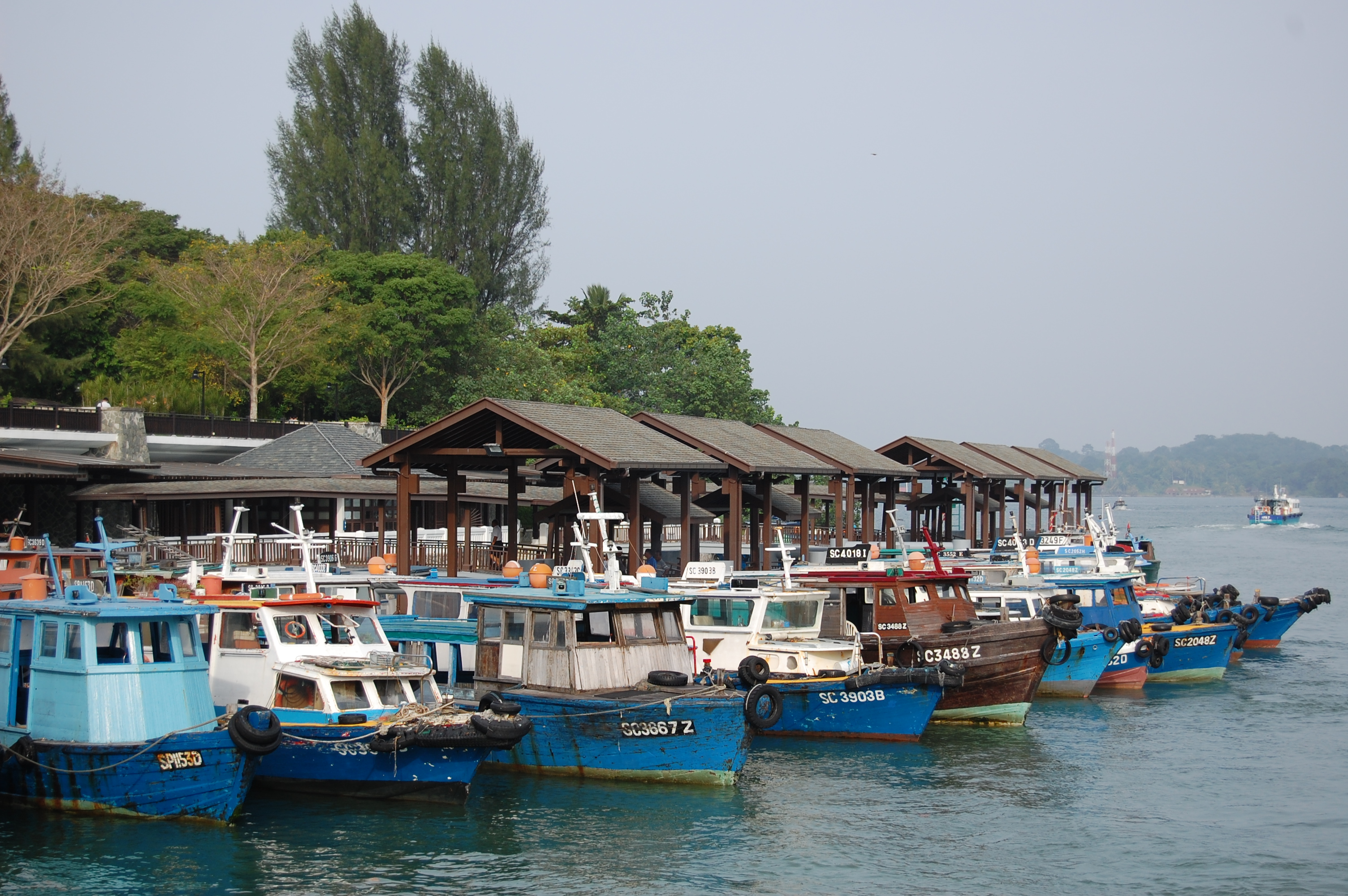 Changi Point Ferry Terminal